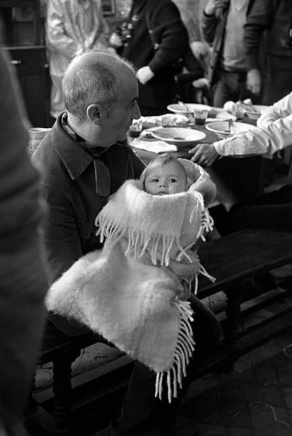 French actor Louis de Funès is seated on a bench and holds a cute newborn baby in his arms on the set of the comedy movie L'homme orchestre, by French director Serge Korber. Bassano Romano (VT), Italy, (Photo by Marisa Rastellini\Mondadori Portfolio via Getty Images)"